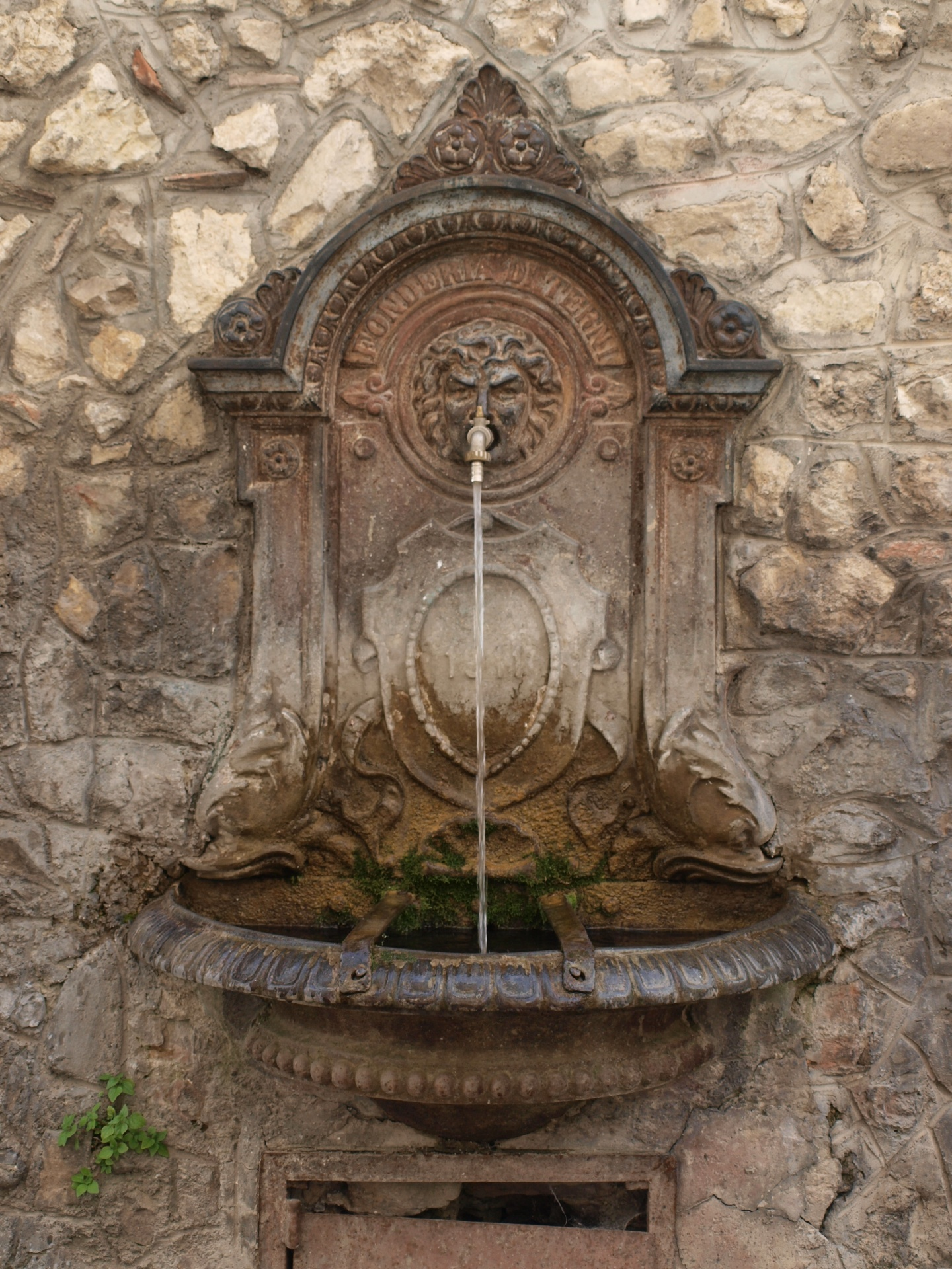 One of several fountains in town. Corner of Via della Stazione in Pizzoli (province L'Aquila, Abruzzo region, Italy)